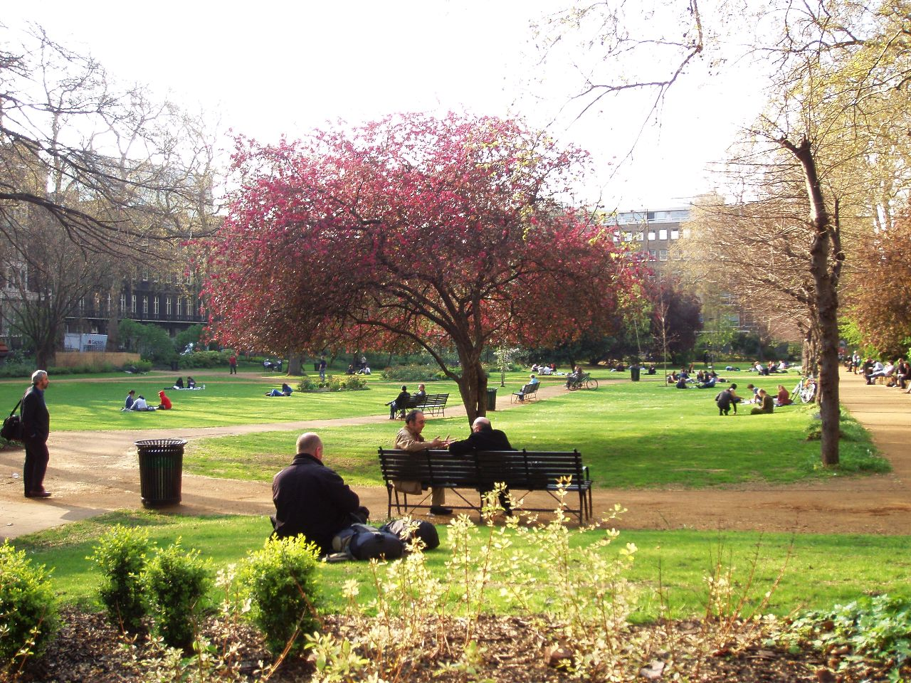 Gordon Square Gardens, London Borough of Camden, WC1